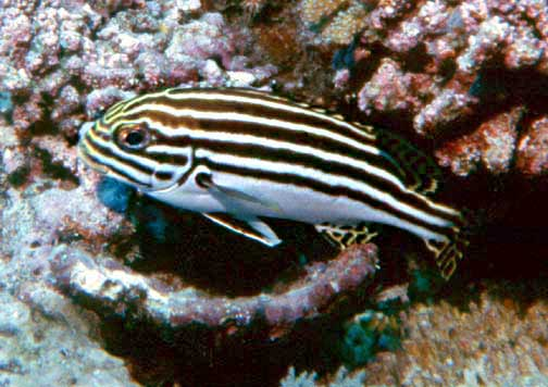 Plectorhinchus orientalis